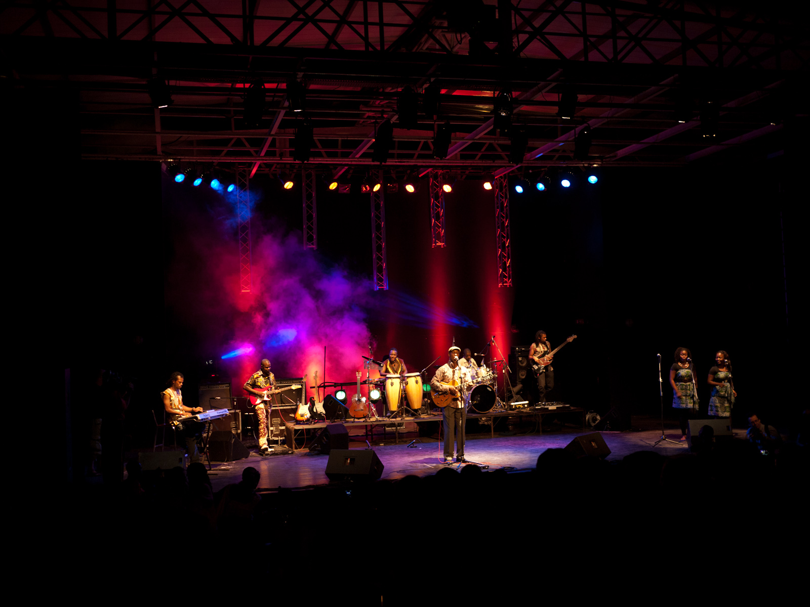 Marrabenta Festival at Centro Cultural Franco-Moçambicano, Maputo, Mozambique